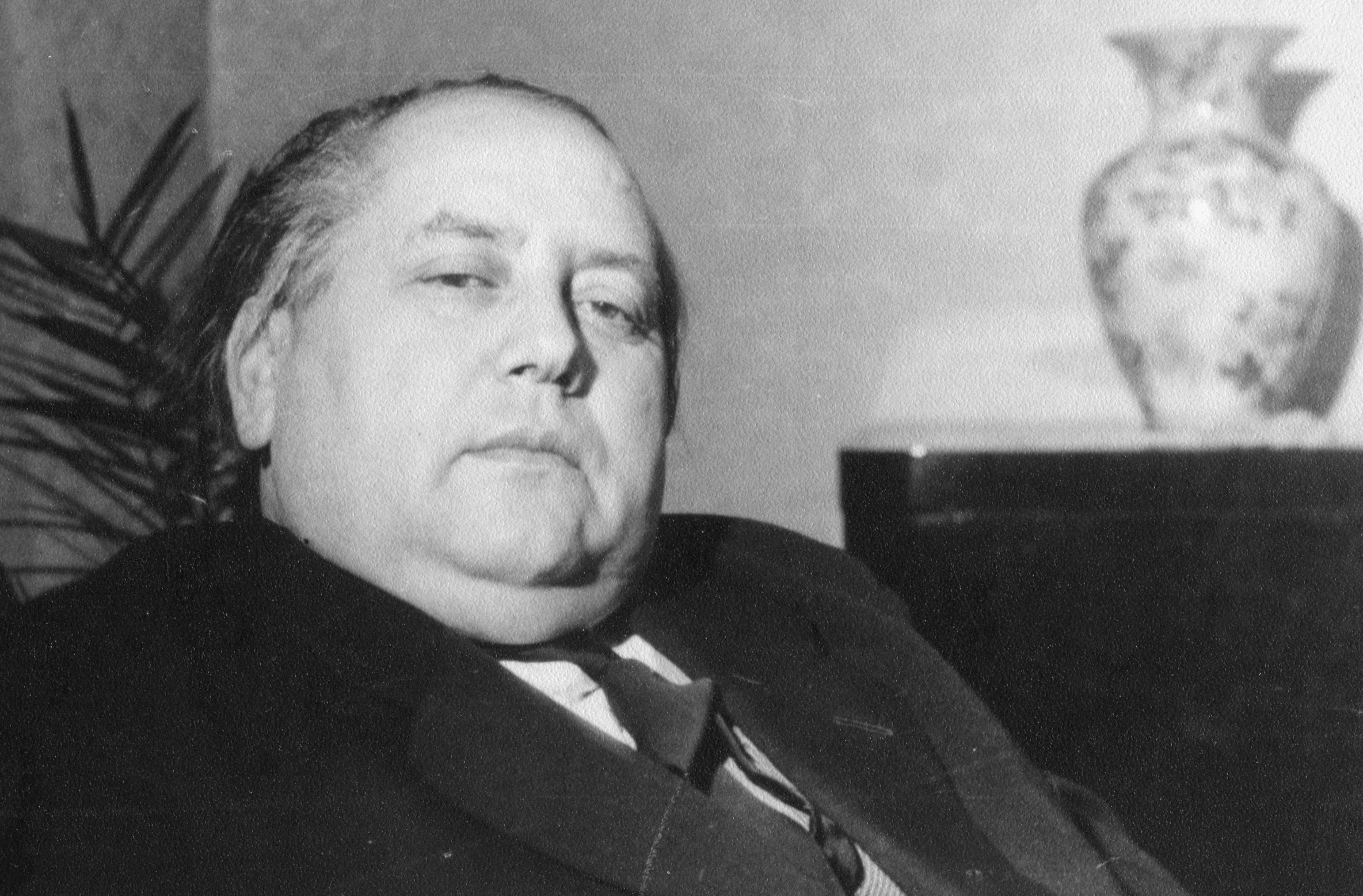 Johannes Kirschweng (1900-1951), german writer